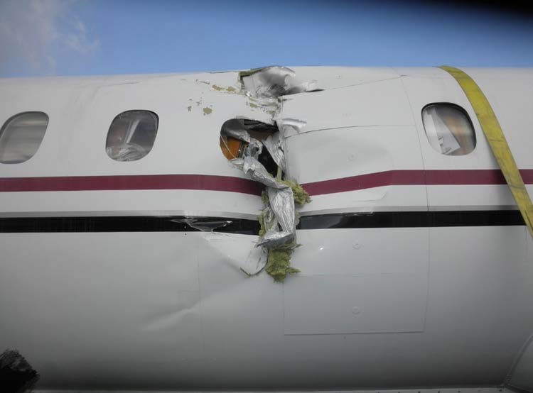 A Saab 2000, registered N686PA, was substantially damaged when it experienced a runway excursion after landing on runway 13 at Unalaska Airport, Alaska.